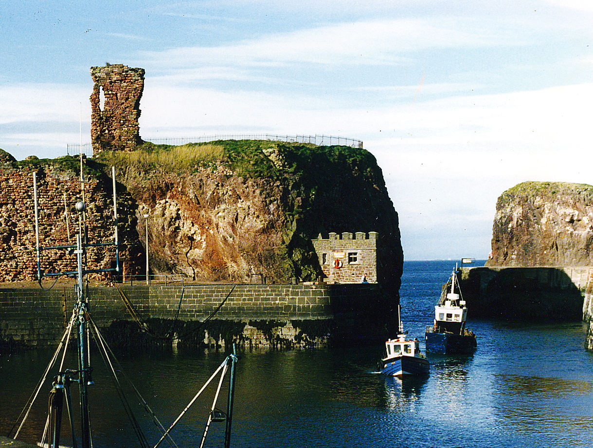 Dunbar harbour and castle, East Lothian, Scotland, in 1987